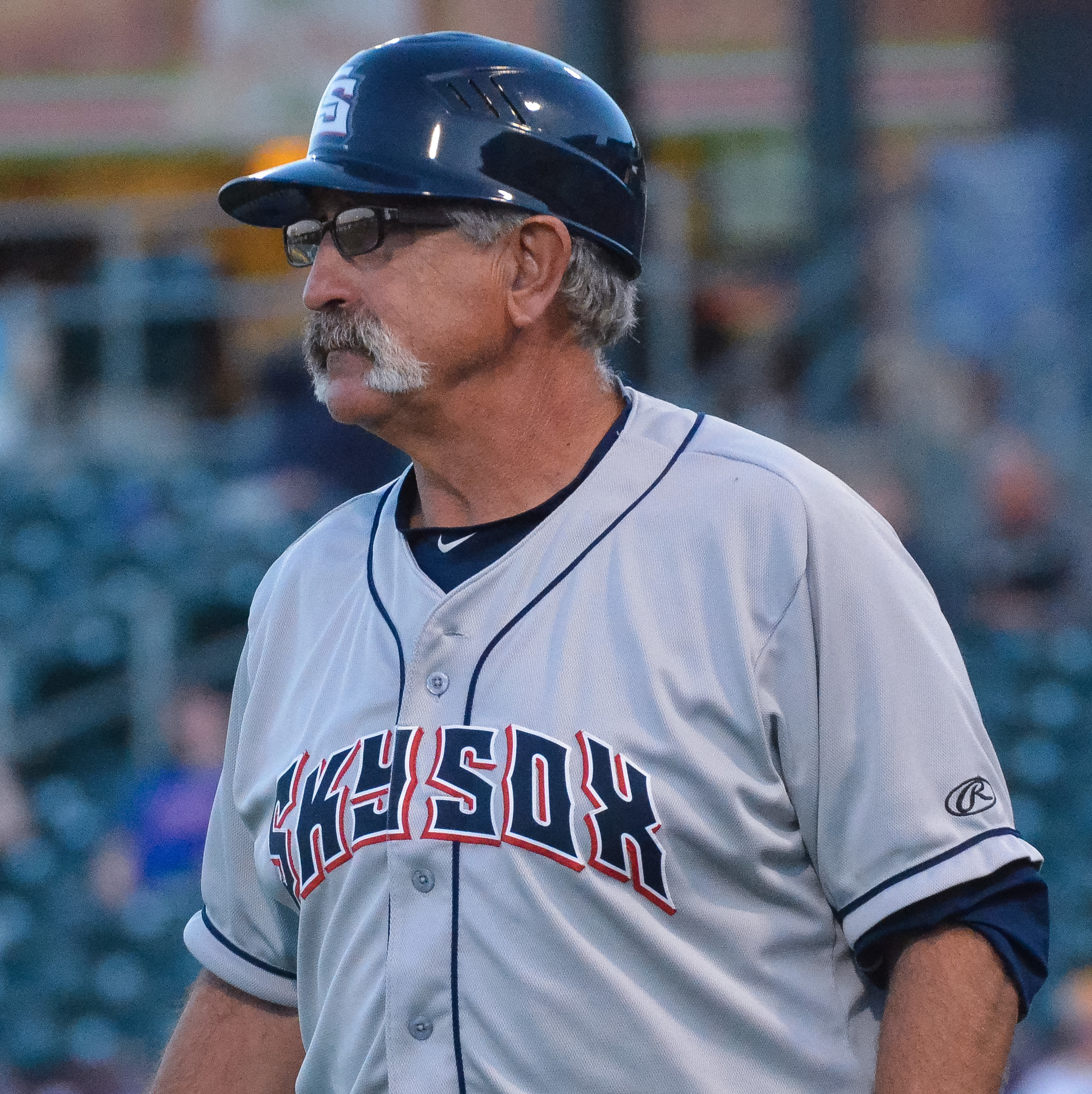 Colorado Springs Sky Sox manager Rick Sweet during a game against the Omaha Storm Chasers in Omaha, Nebraska in 2016